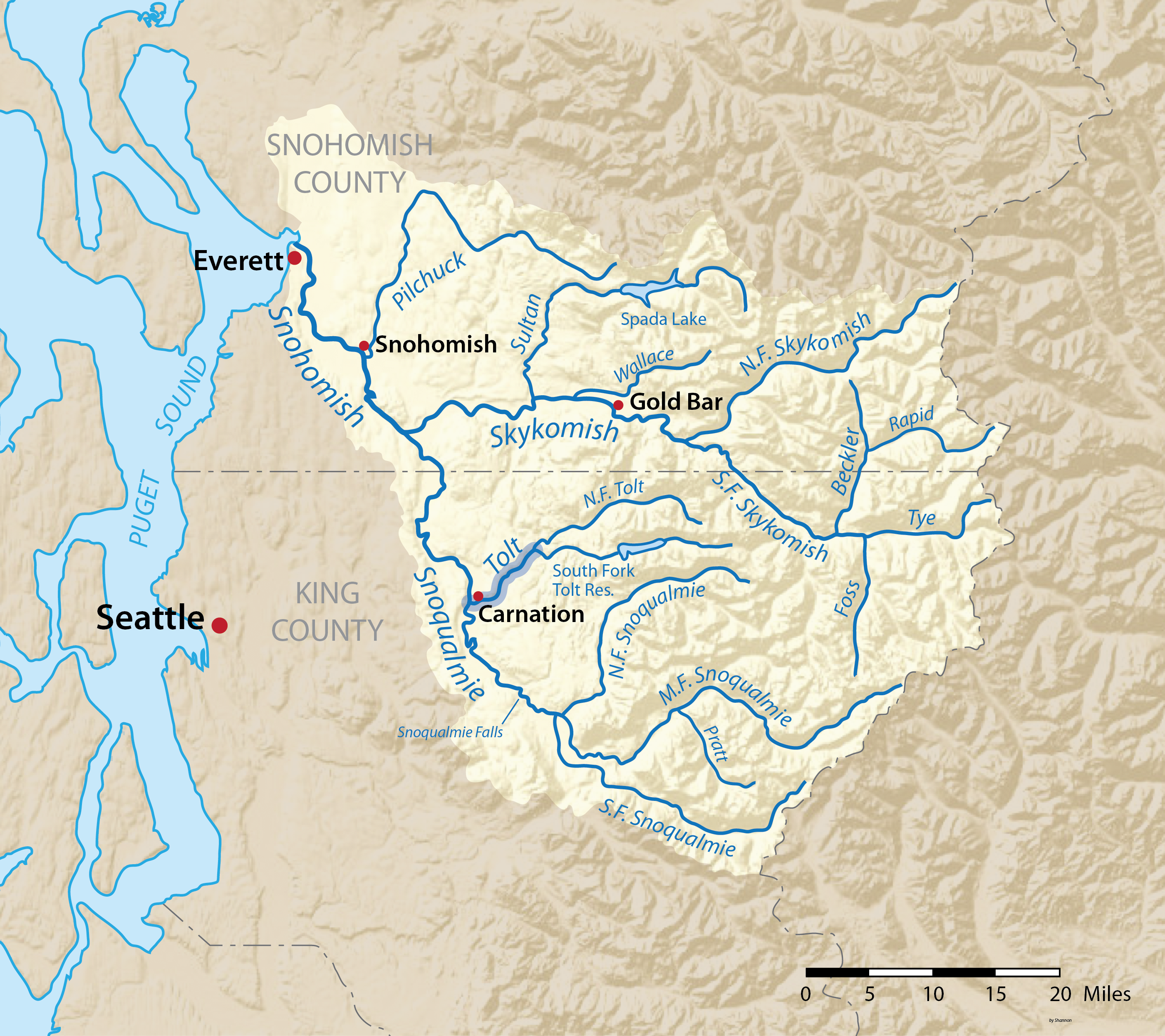 Map of the Snohomish River watershed in Washington, USA with the Tolt River highlighted. Made using USGS National Map data. Replacement for File:Toltrivermap.jpg.